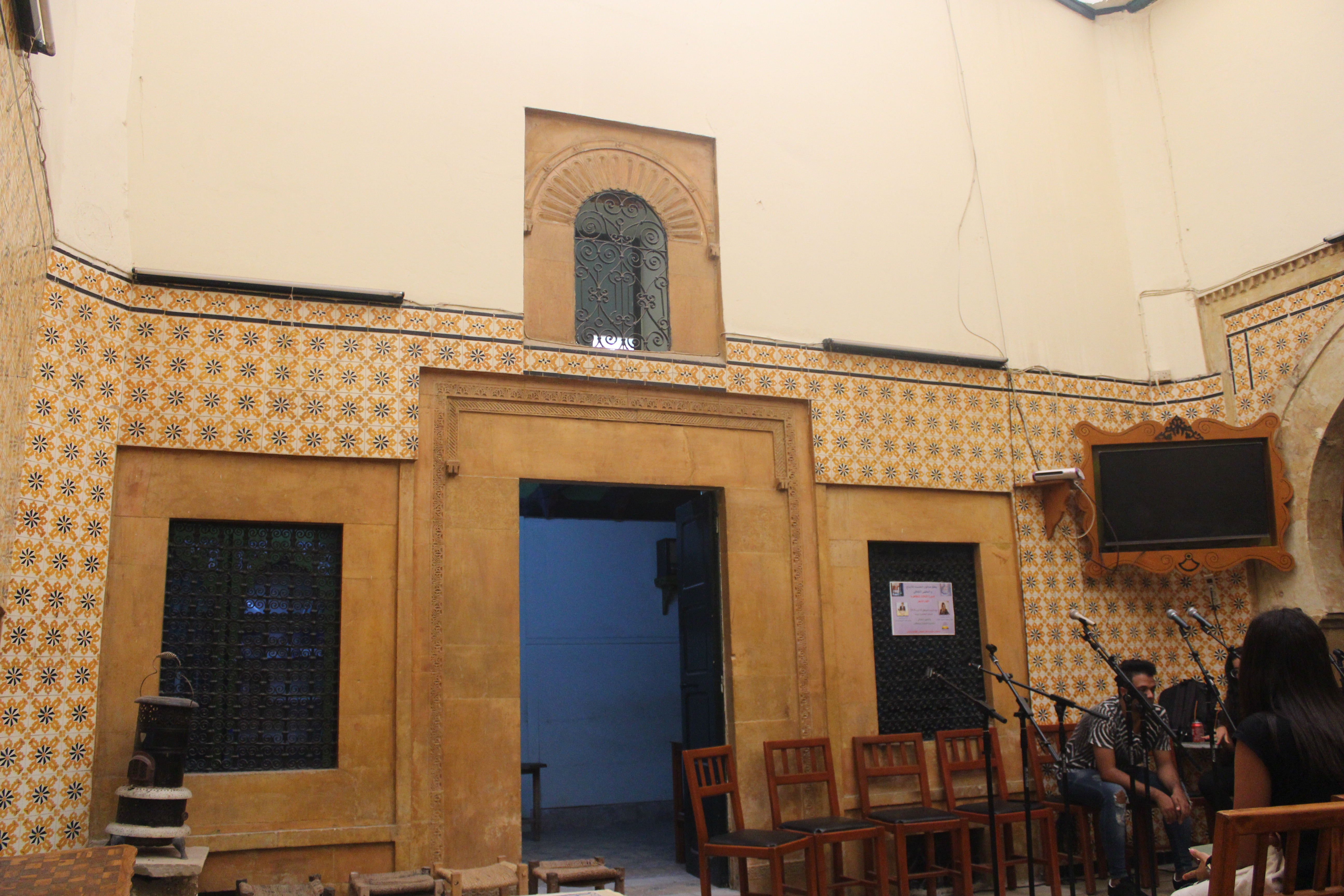 Dar Frikha, a cultural space in the medina of Sfax